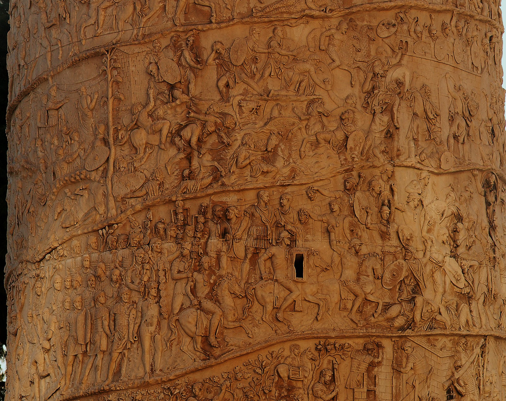 Detailed view of Trajan's column. Panorama from different images, exif taken from the middle one. Cut into pieces by user:sailko